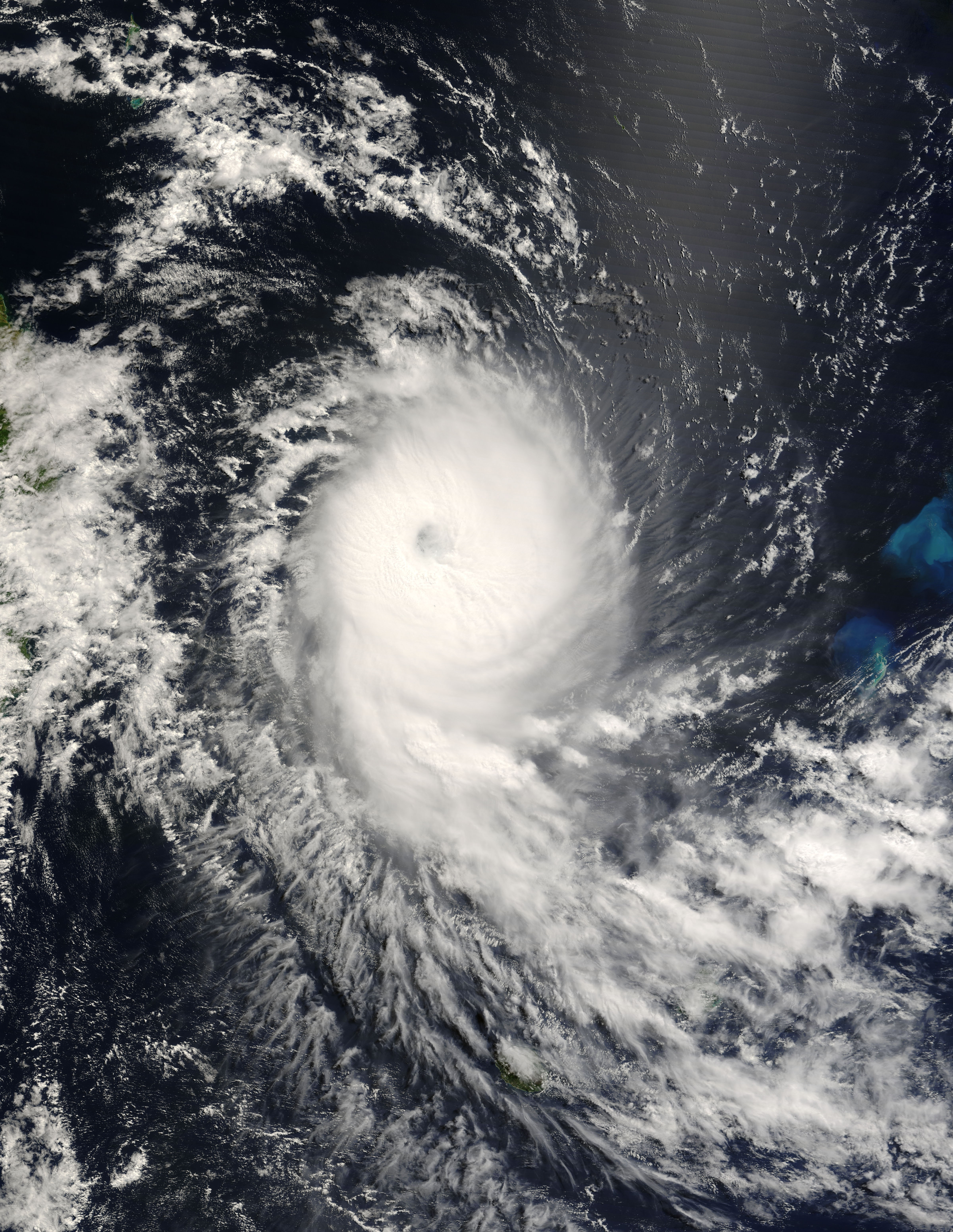 Tropical Cyclone Jaya (22S) approaching Madagascar, as seen by the MODIS instrument on NASA's Terra satellite at 0645 UTC.